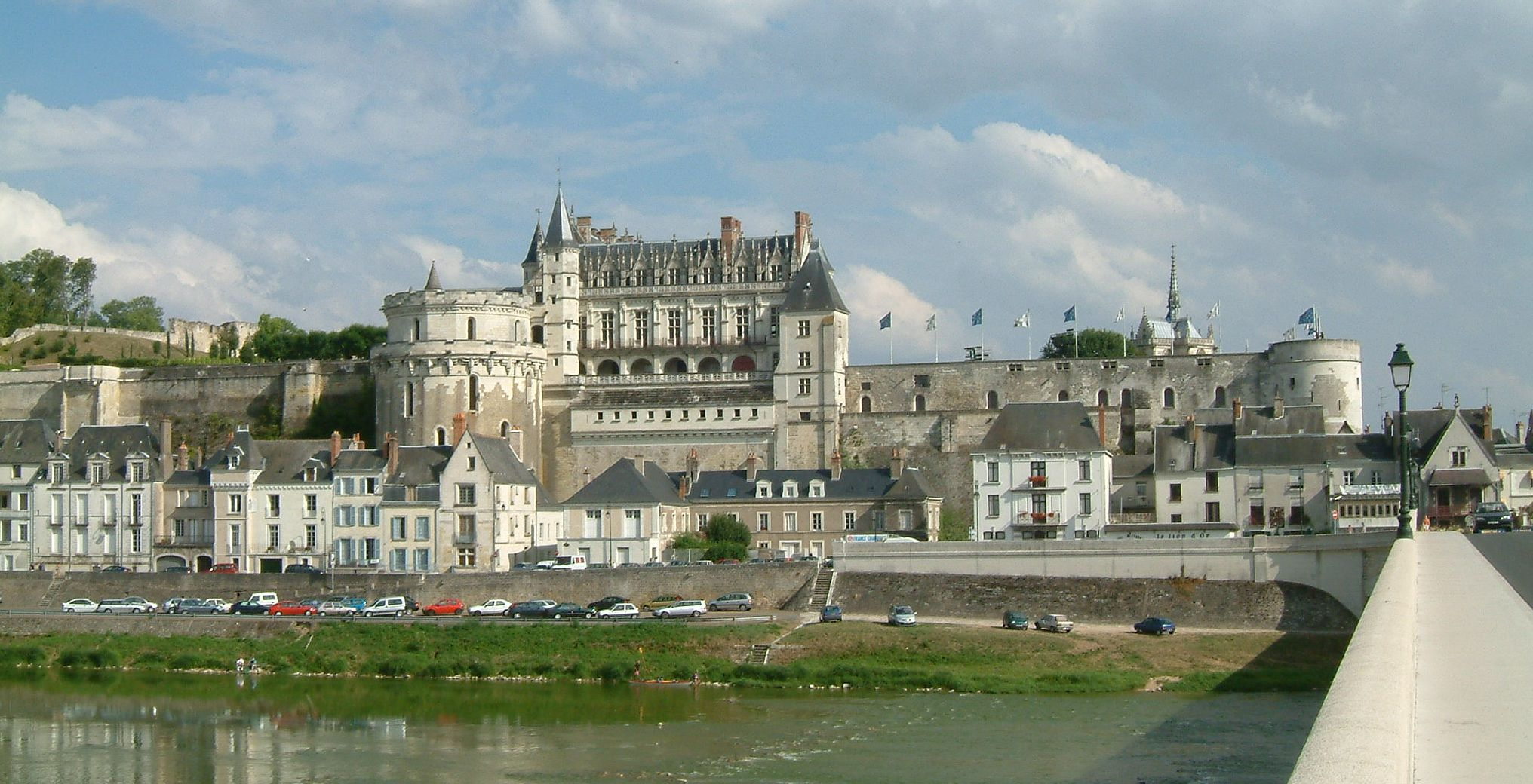 Amboise castle, Amboise, FRANCE